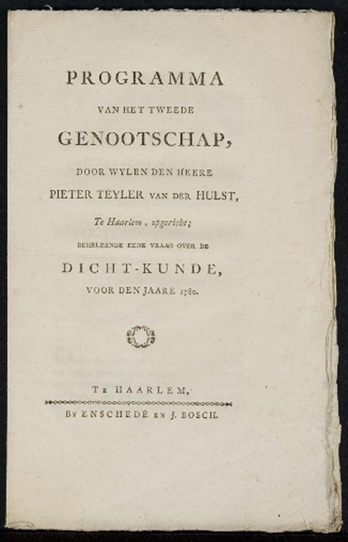 Competition announcement and regulations of Teylers Second Society, 1780. Collection Teylers Museum, Haarlem, The Netherlands.